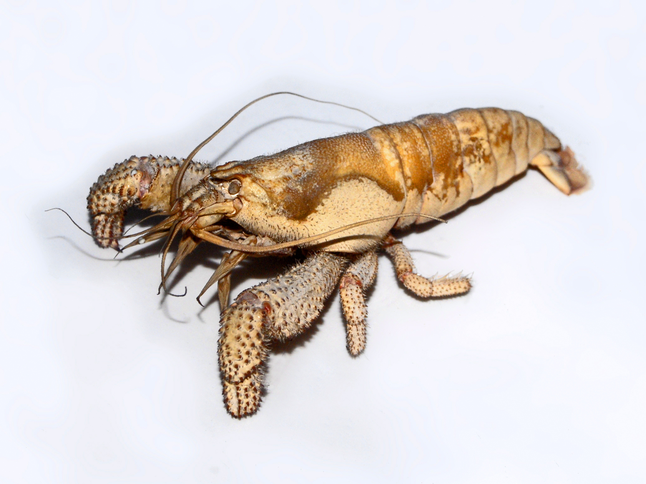 Atya scabra from Cape Verde on display at the Museo Civico di Storia Naturale di Milano